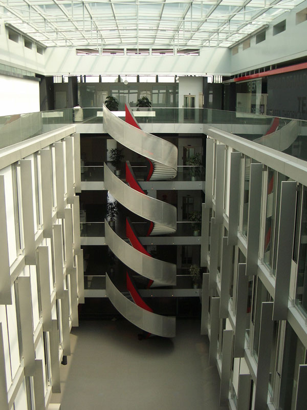 BC Building (Informatique & Communications) from inside. Photo taken by Daniel Lorch on 15th July 2006